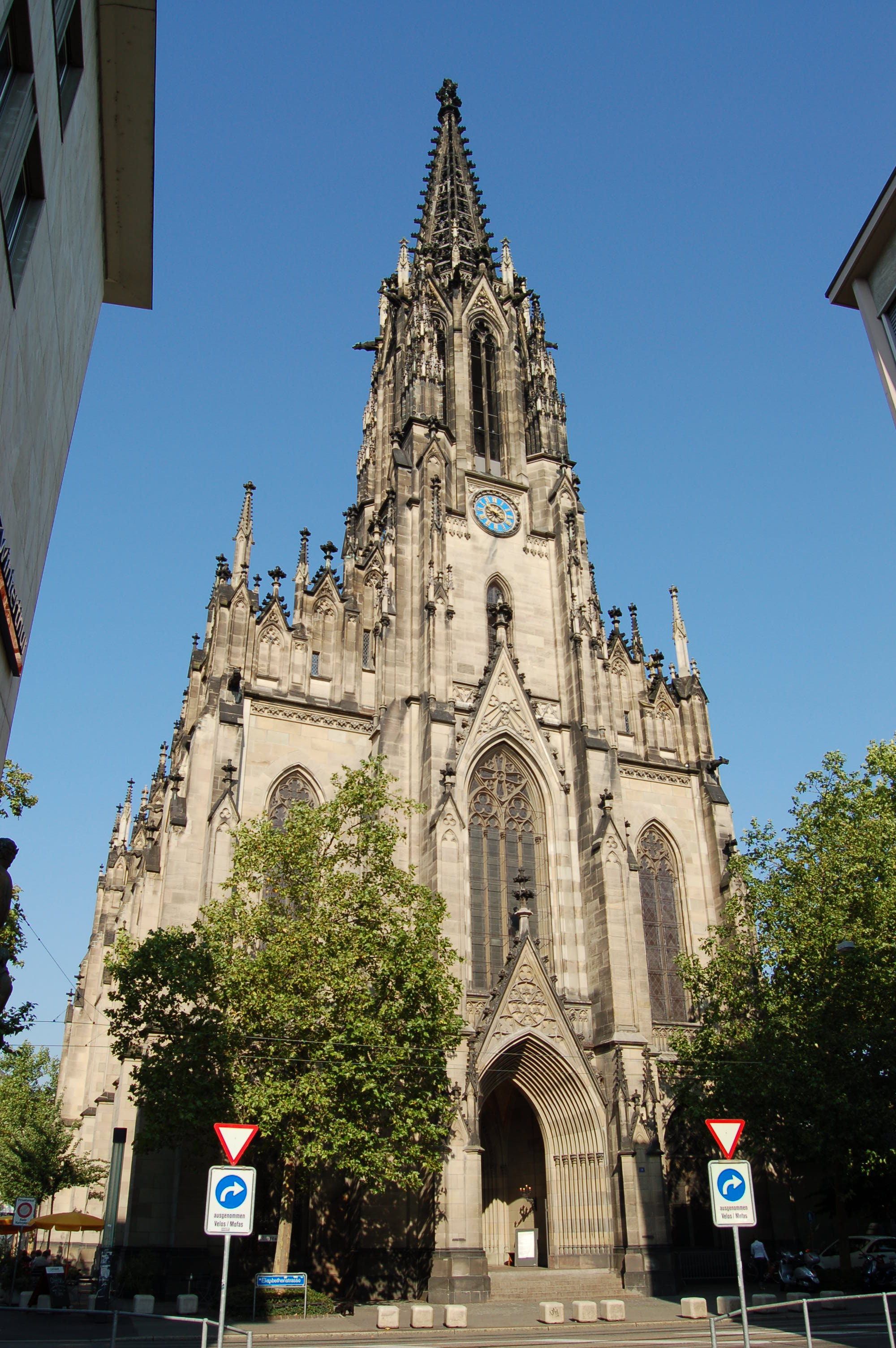 Basle, Switzerland